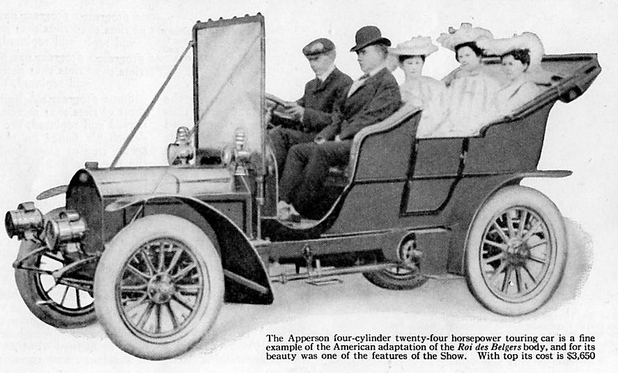 1905 Apperson 24 HP Model B with "Roi des belges" tonneau coachwork.One of the new-for-1905 cars pictured in Country Life magazine.